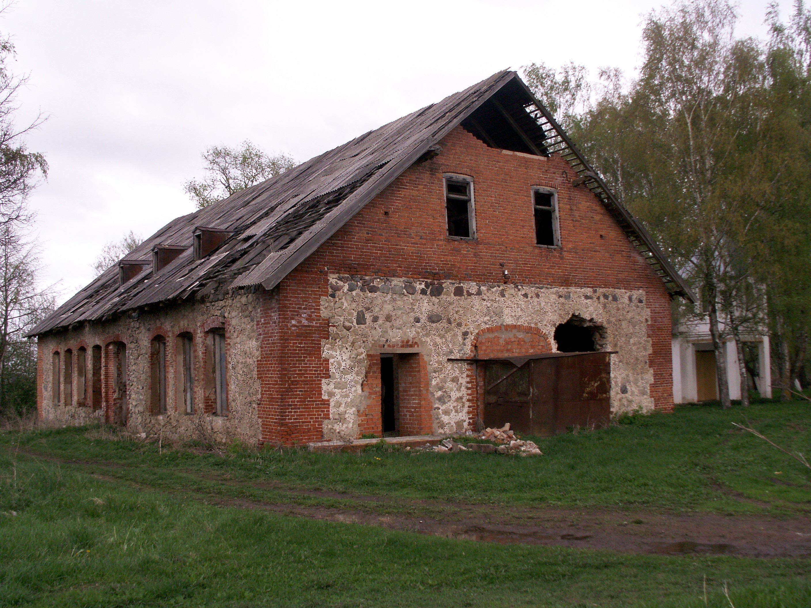 Former manor in Kraštai, Lithuania